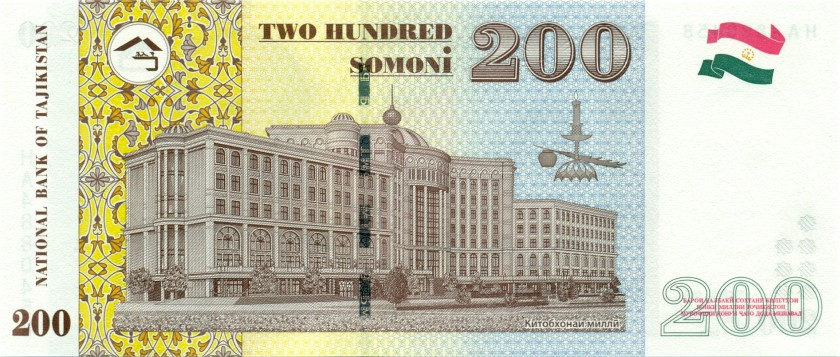 Tajikistani somoni Тоҷикӣ: Сомонӣ